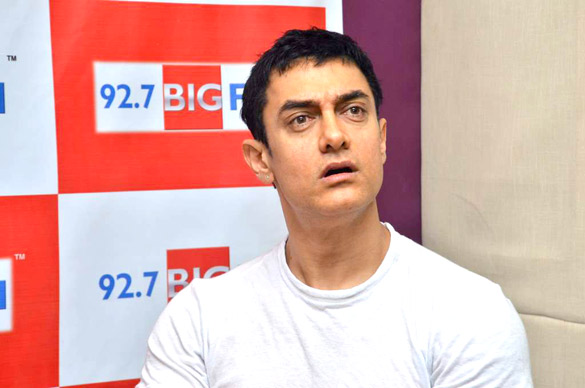 Aamir Khan at 92.7 BIG FM to promote Satyamev Jayate